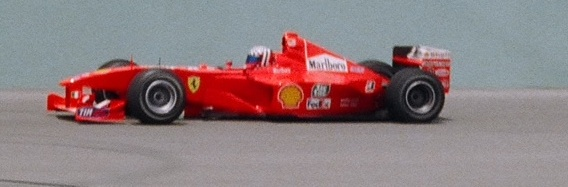 Ferrari F1-2000 Chassis at the 2006 Ferrari Challenge at the Homestead-Miami Speedway.